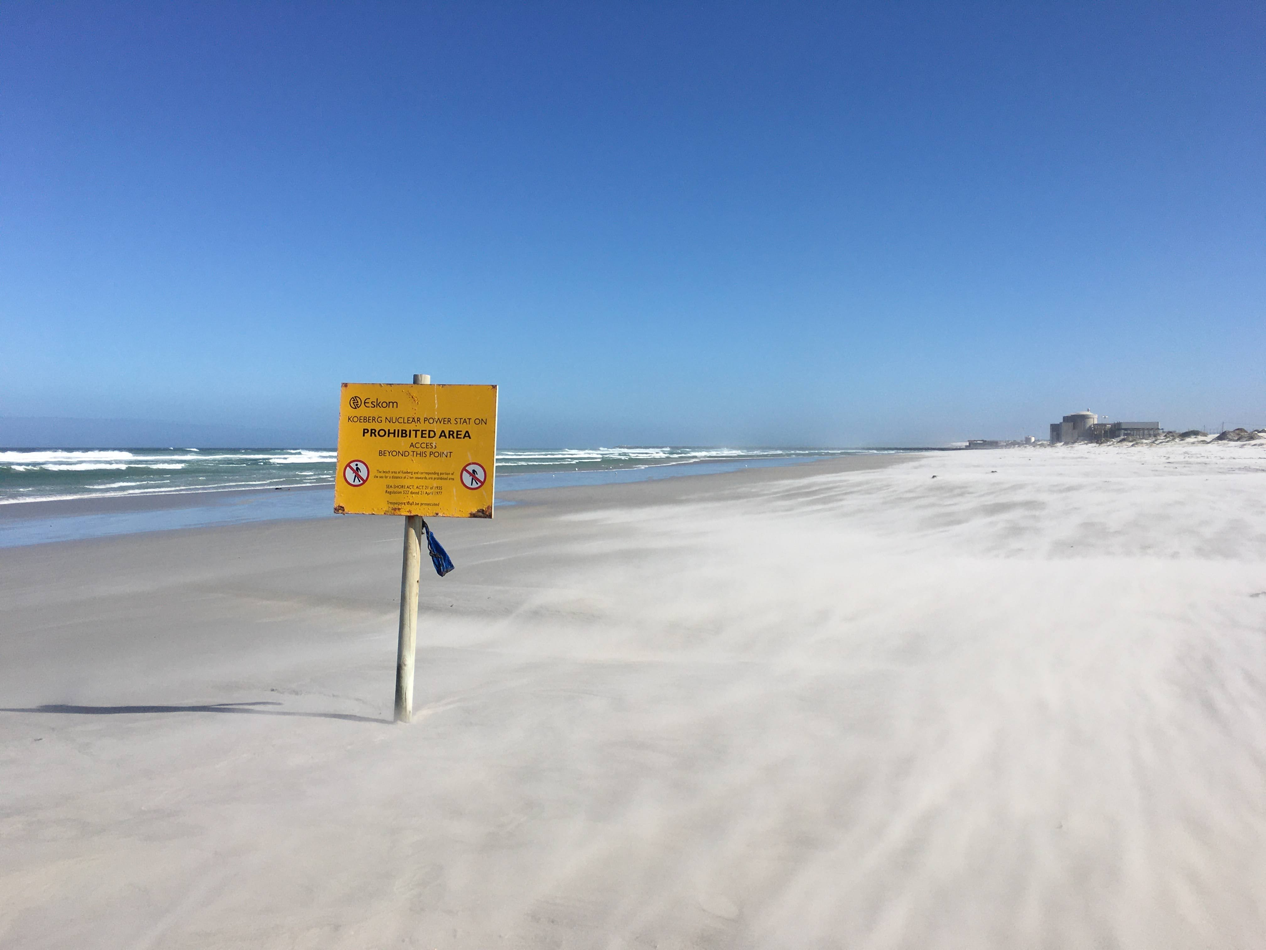 A Sign prohibiting access to the area near South Africa's Koeberg nuclear power plant in Cape Town